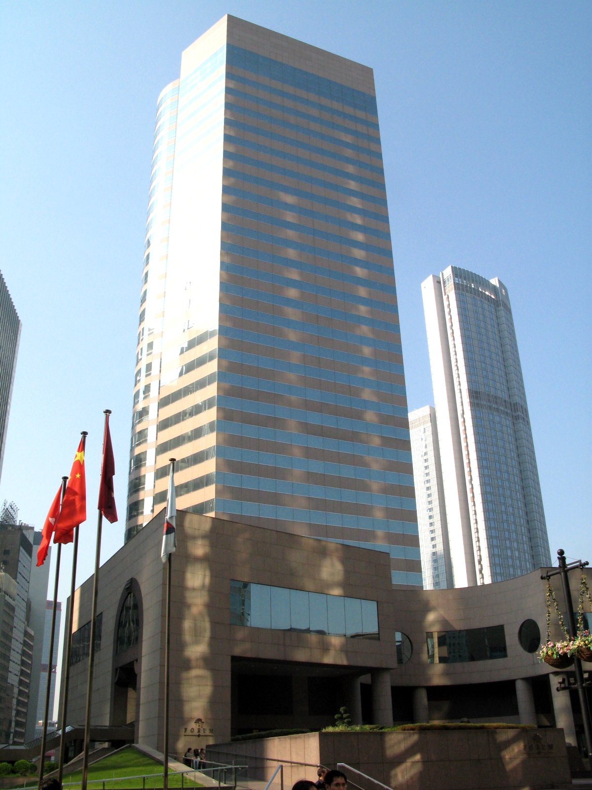 HK Exchange Square Block 3